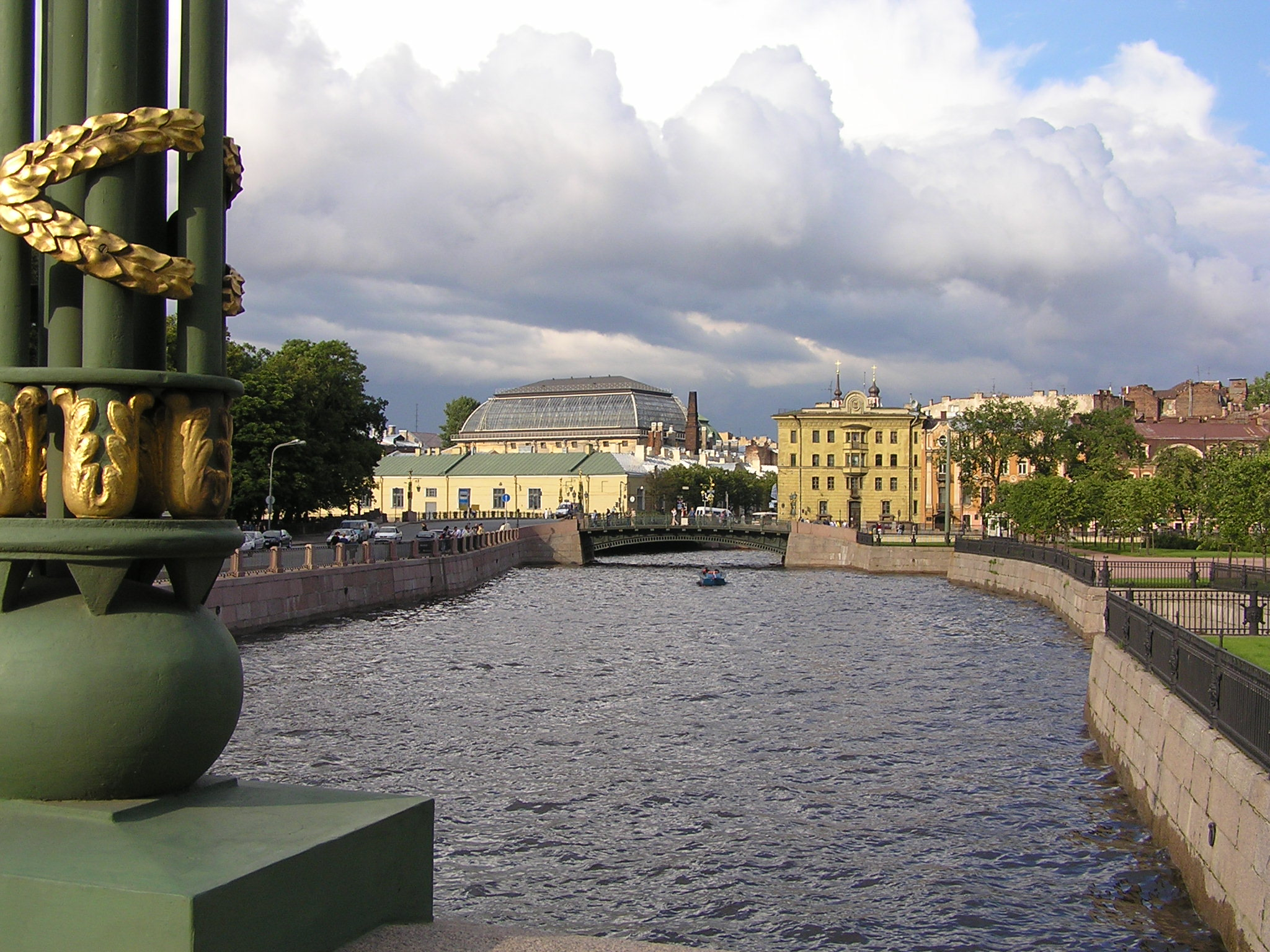 View on Moika River and First Engineer Bridge